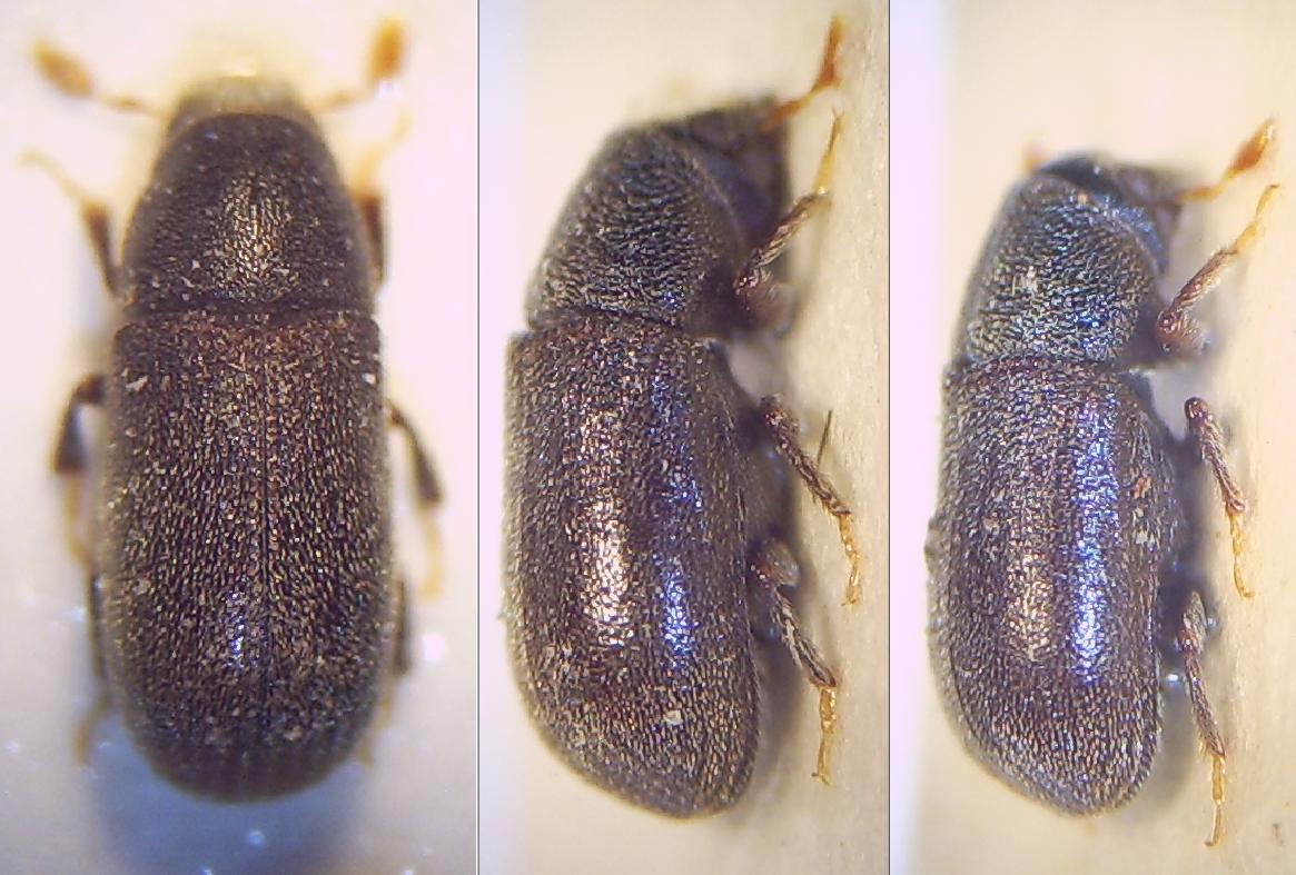 Polygraphus_grandiclava_from left: female (Backside), female, male Imago.